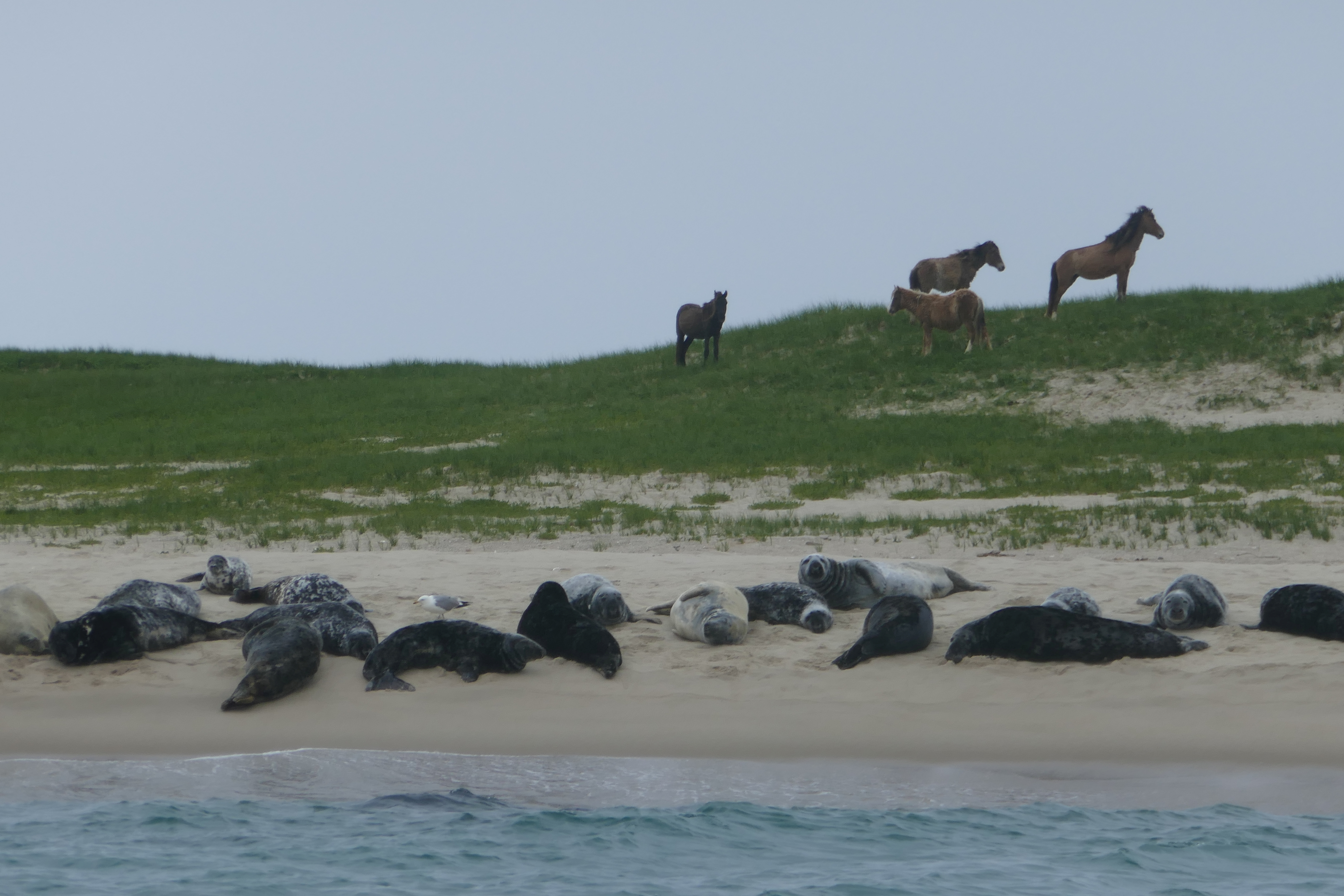 Wild horses and grey seals by the beach on Sable Island, Nova Scotia, Canada